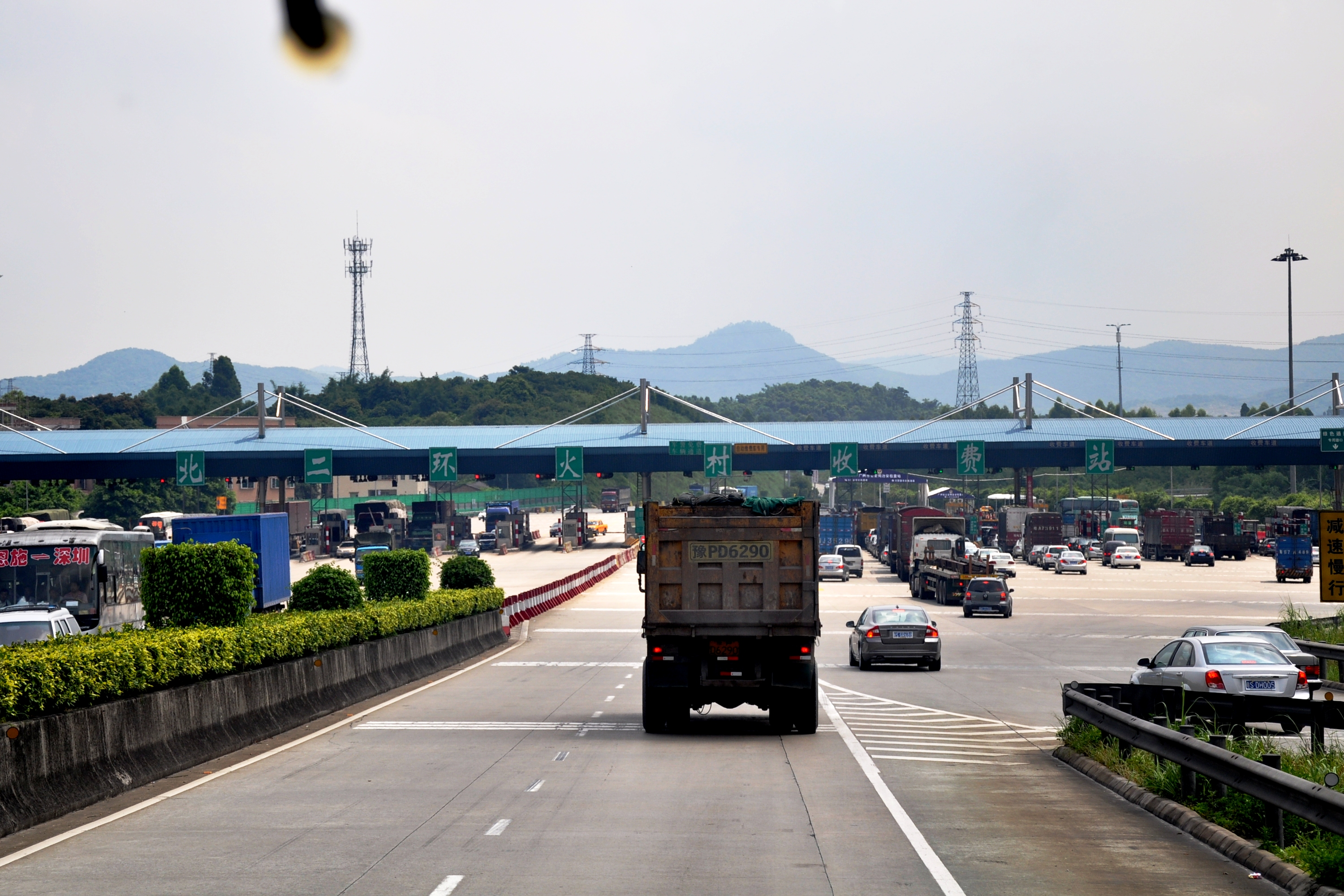 Huocun Tollgate In China Expwy G1501-GZRE